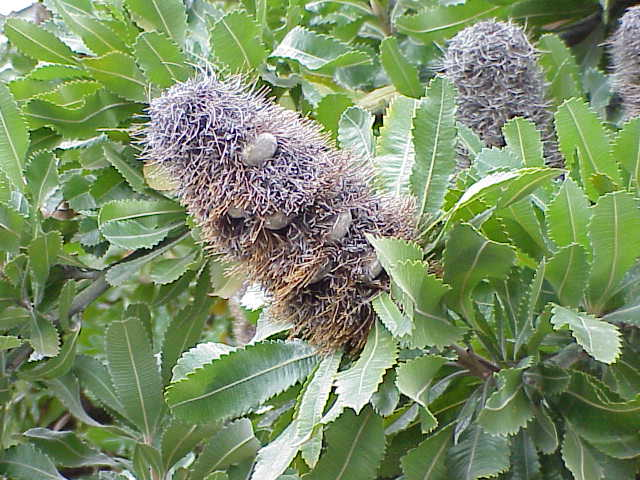 Species: Banksia serrata Family: Proteaceae Image No. 1